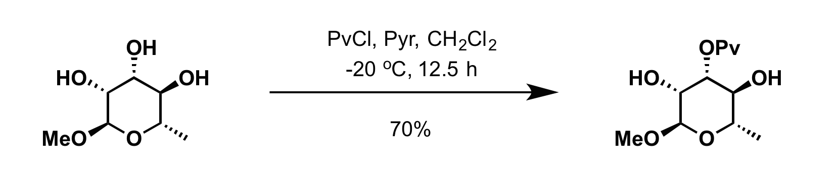 Pv Protected alcohol